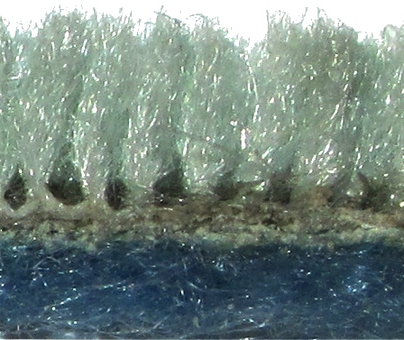 cross section of a velour carpet, Height: 8 mm